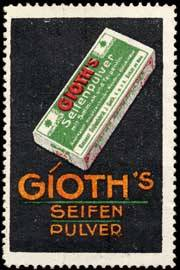 Advertisement (Stamp) by Gioth